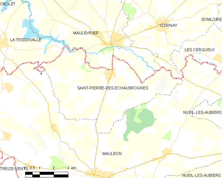 Map of French municipality Saint-Pierre-des-Échaubrognes